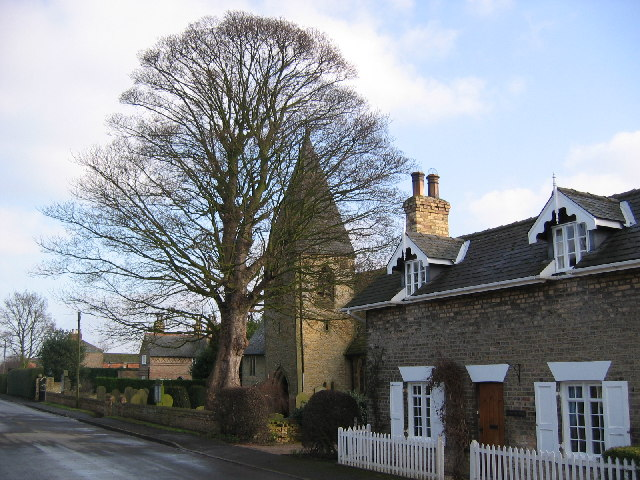 St Mary's parish church, Broomfleet, East Riding of Yorkshire, England, seen from the west, with Glebe Cottage on the right.